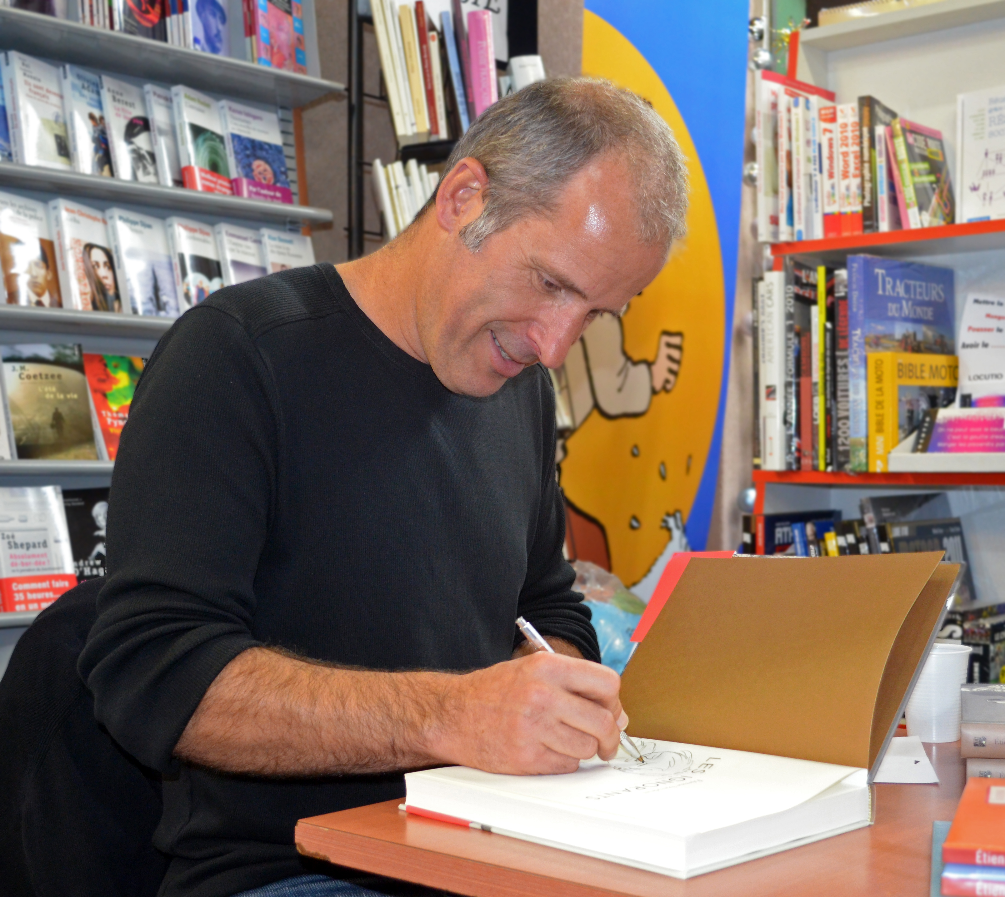 Etienne Davodeau signing his book in a bookshop - Beaupréau (Maine-et-Loire) - 2011-12-09